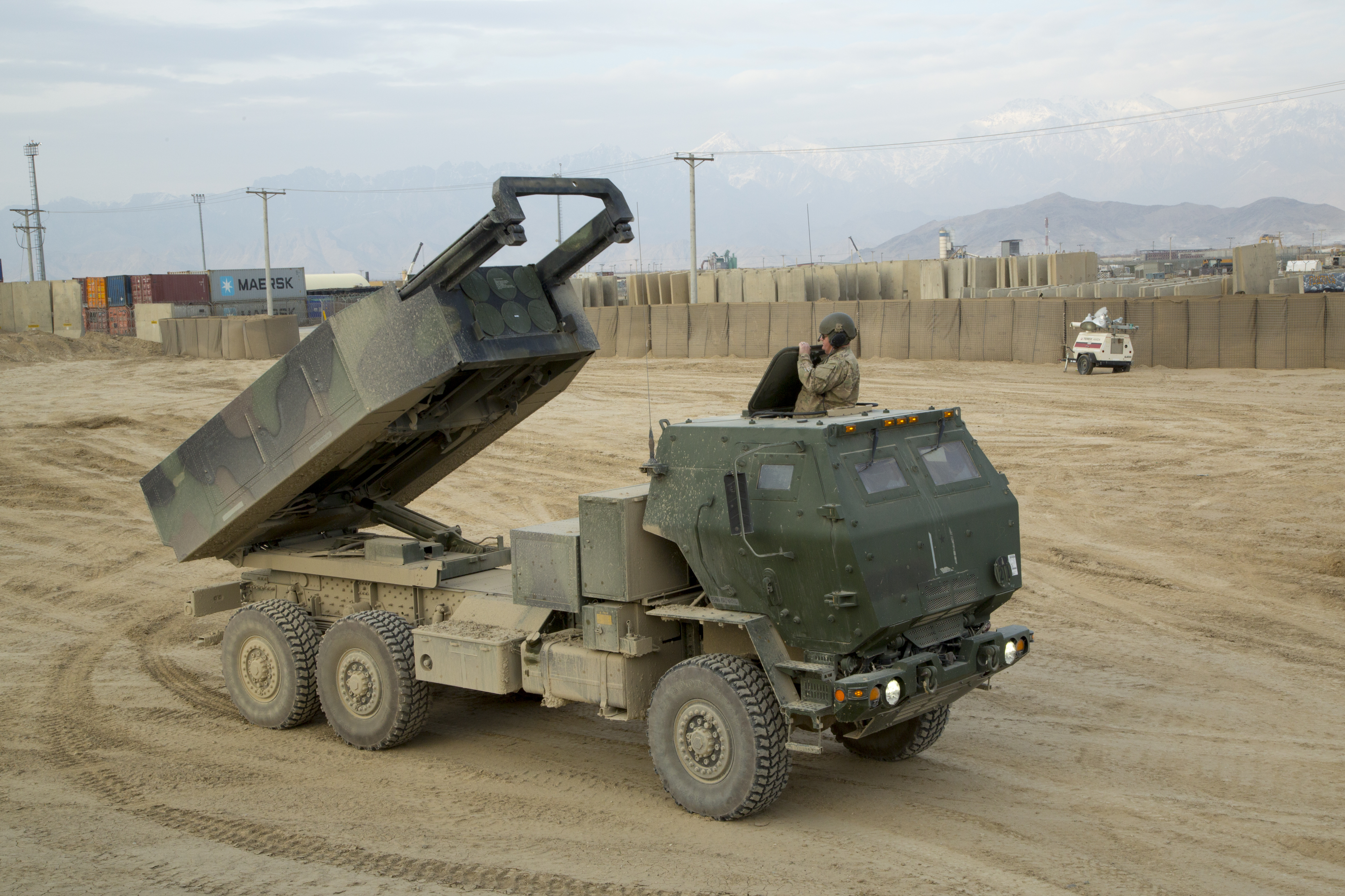 A coalition force member watches as the Launch Module on the High Mobility Artillery Rocket System (HIMARS) raises during precision fire support training drills at Bagram Air Field, Parwan province, Afghanistan, March 13, 2014. This training helps troops maintain a state of readiness that enables them to quickly execute their fire support missions. (U.S. Army photo by Staff Sgt. Ricardo Hernandez-Arocho/ Released)